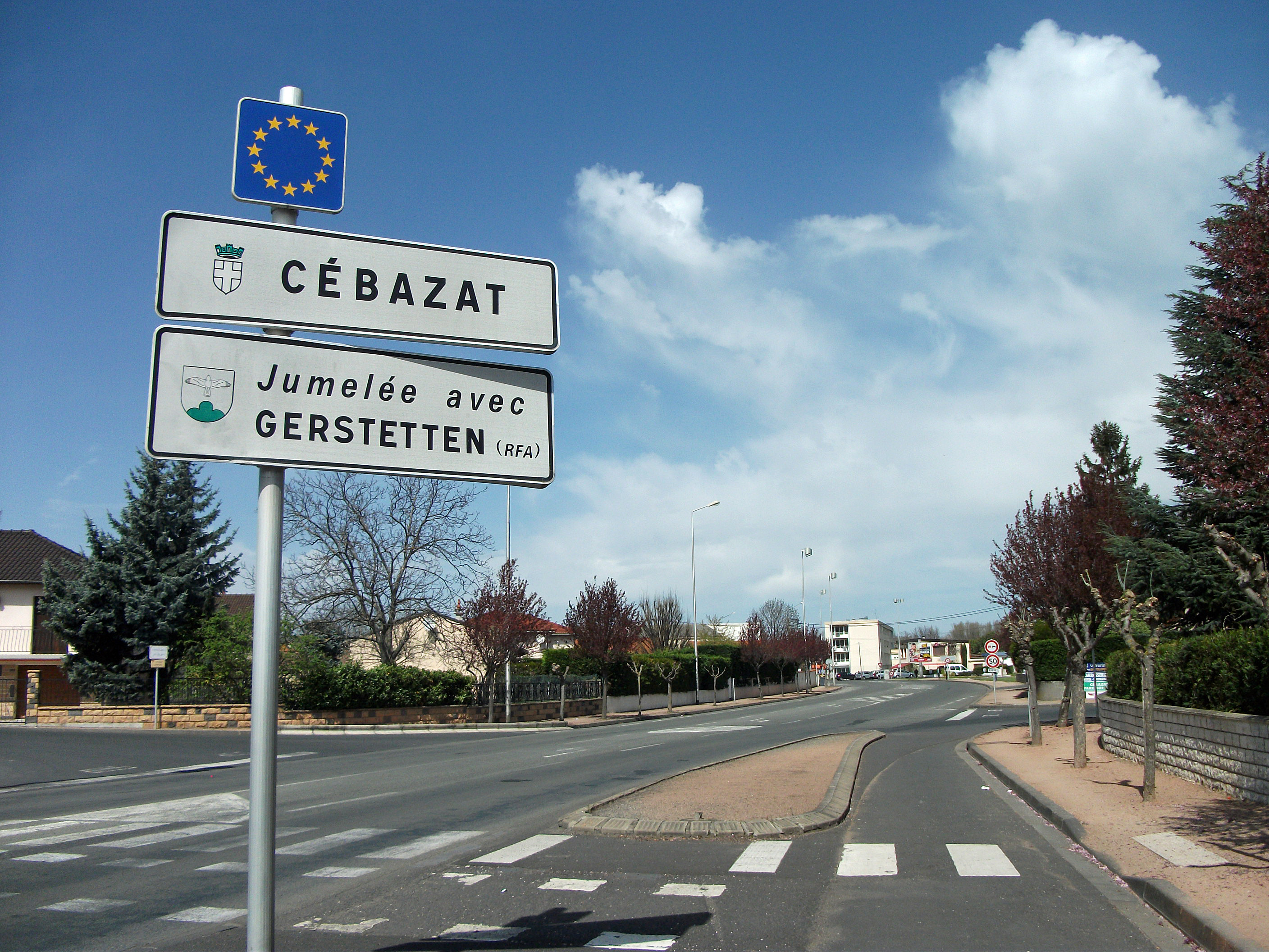 Twin city sign Cébazat/Gerstetten (Fed. Rep. of Germany) but sign made in 1992… Fourches St (dep. rd. 21A) in Cébazat, Puy-de-Dôme, Auvergne, France. Near bus stop Debussy.